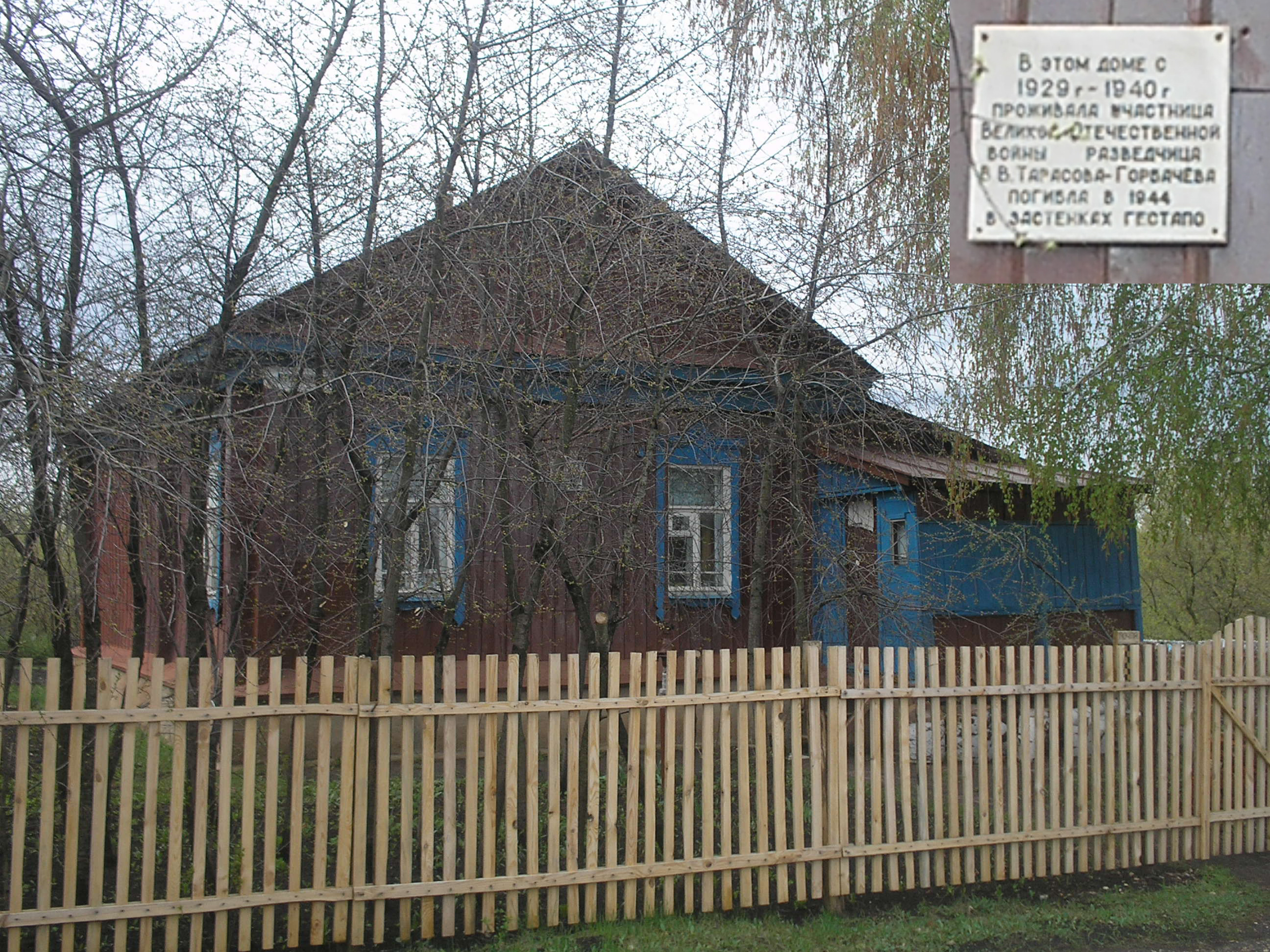 Rtishchevo. Vera Gorbachjova street